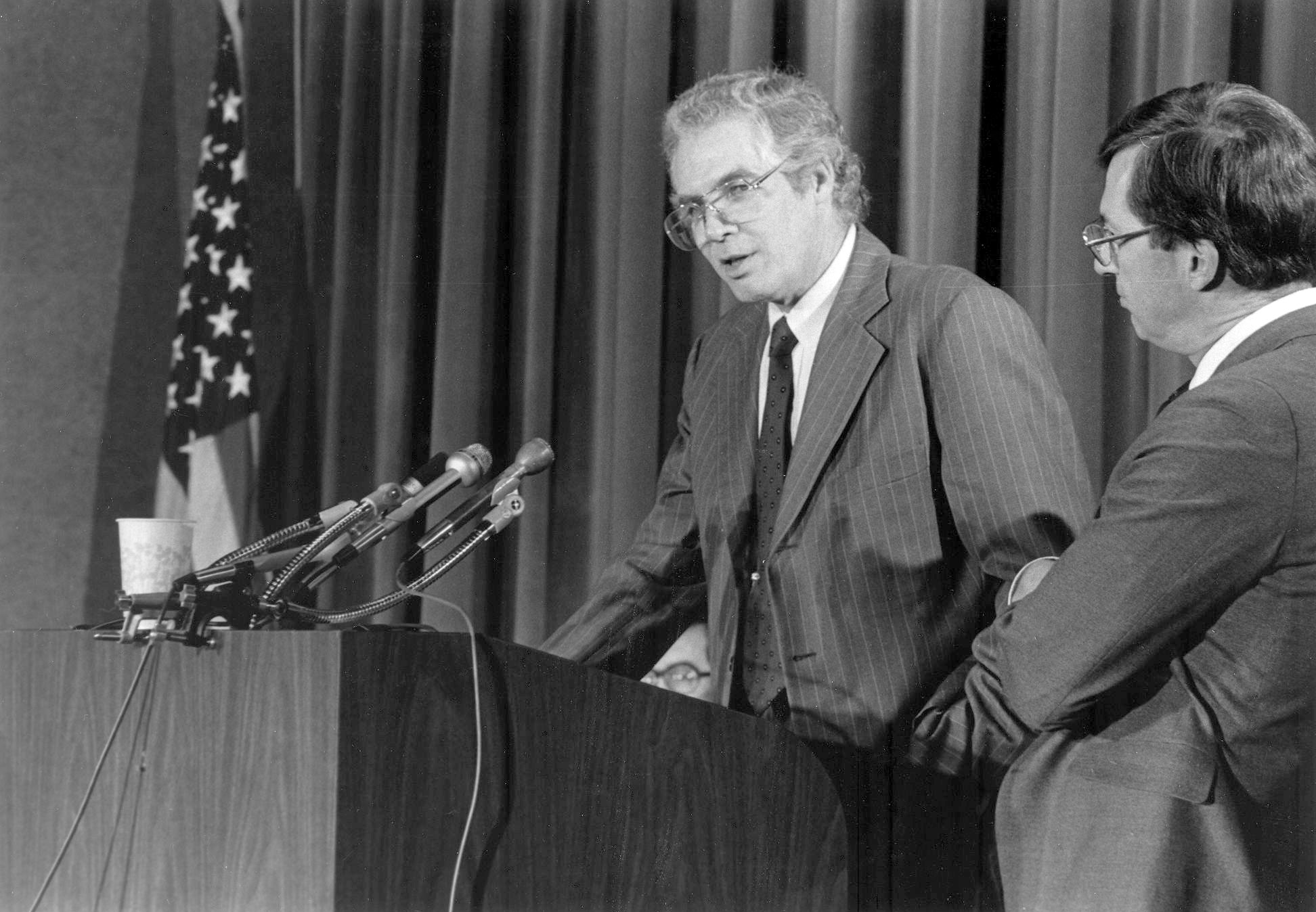 Title PDQ Press Conference Description Dr. Donald A. Lindberg, Director, National Library of Medicine, answers questions at PDQ Press Conference, January 31, 1985. With Vincent DeVita, former Director, National Cancer Institute (1980-1988). Topics/Categories Historical, Events Type B&W, Photo Source National Cancer Institute